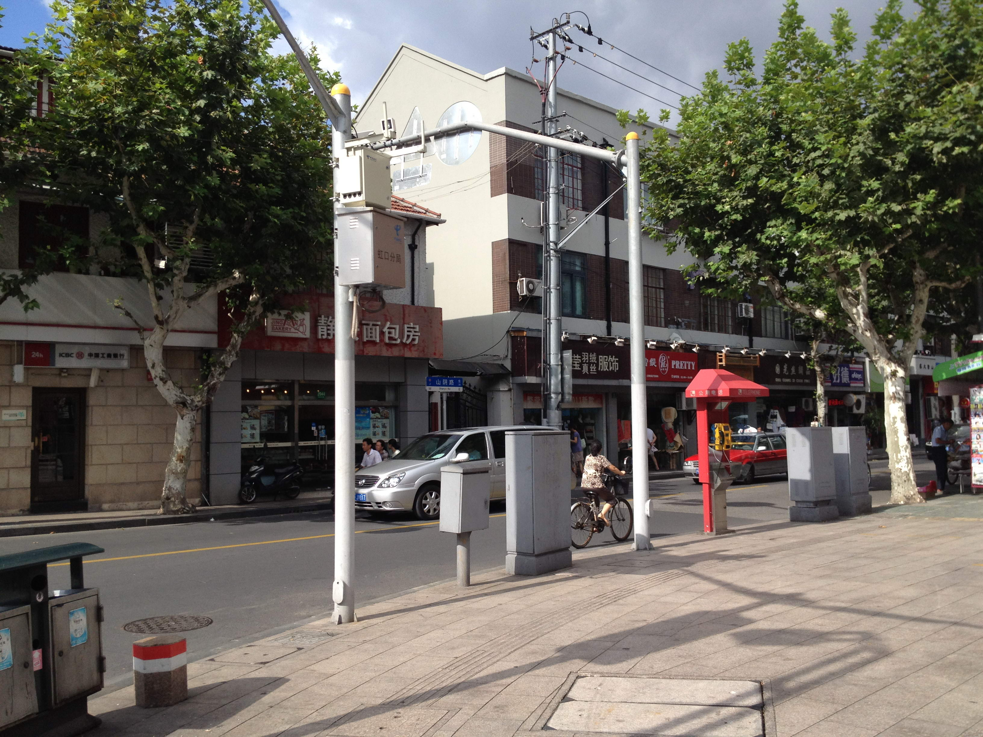 Shanyin Road Shanghai Aug-6-2012